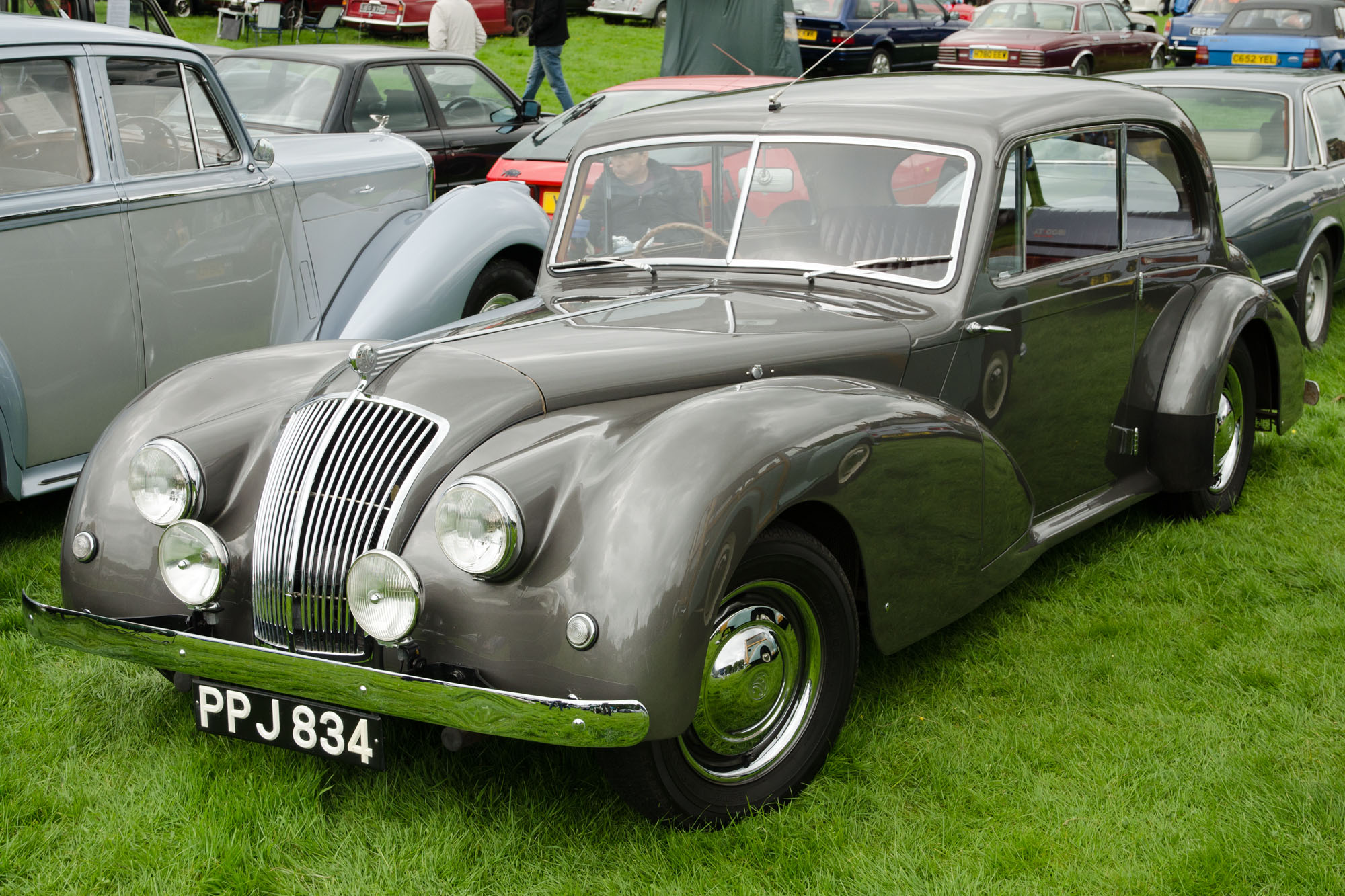 Capesthorne Hall Classic Car Show 25/05/2014